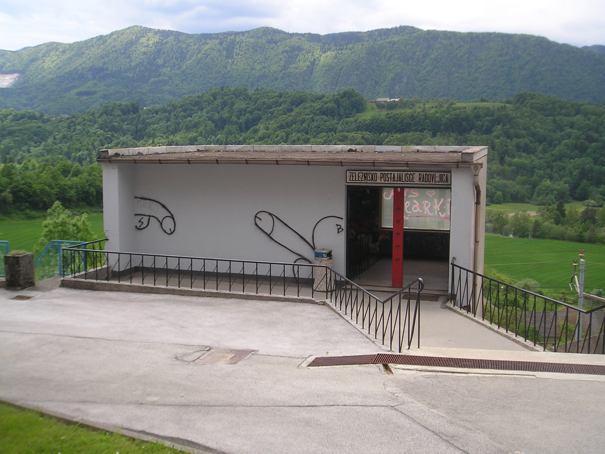 Entry to the platform of the train station in Radovljica, Slovenia